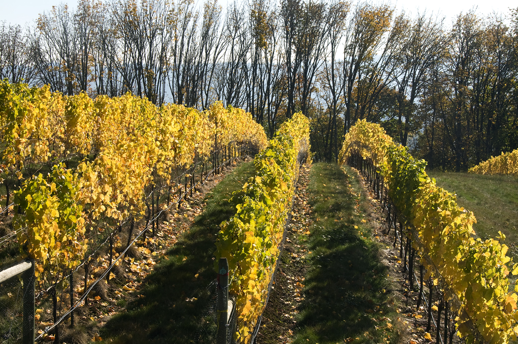 Vineyards west of Salem, Oregon. Photo credit: ODOT photographer Gary Weber